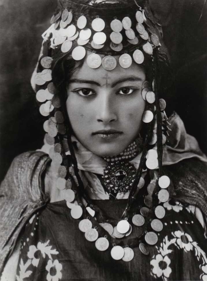 Ouled Naïl girl, Algeria, circa 1905